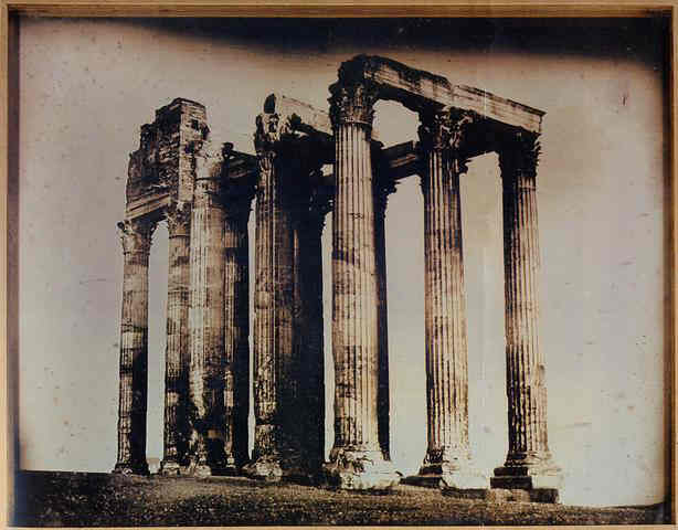 Joseph-Philibert Girault de Prangey, 113.Athènes, T[emple] de J[upiter] olympien pris de l’est (1842), $922,488, 2003, auction.